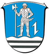 Coat of Arms of Wächtersbach